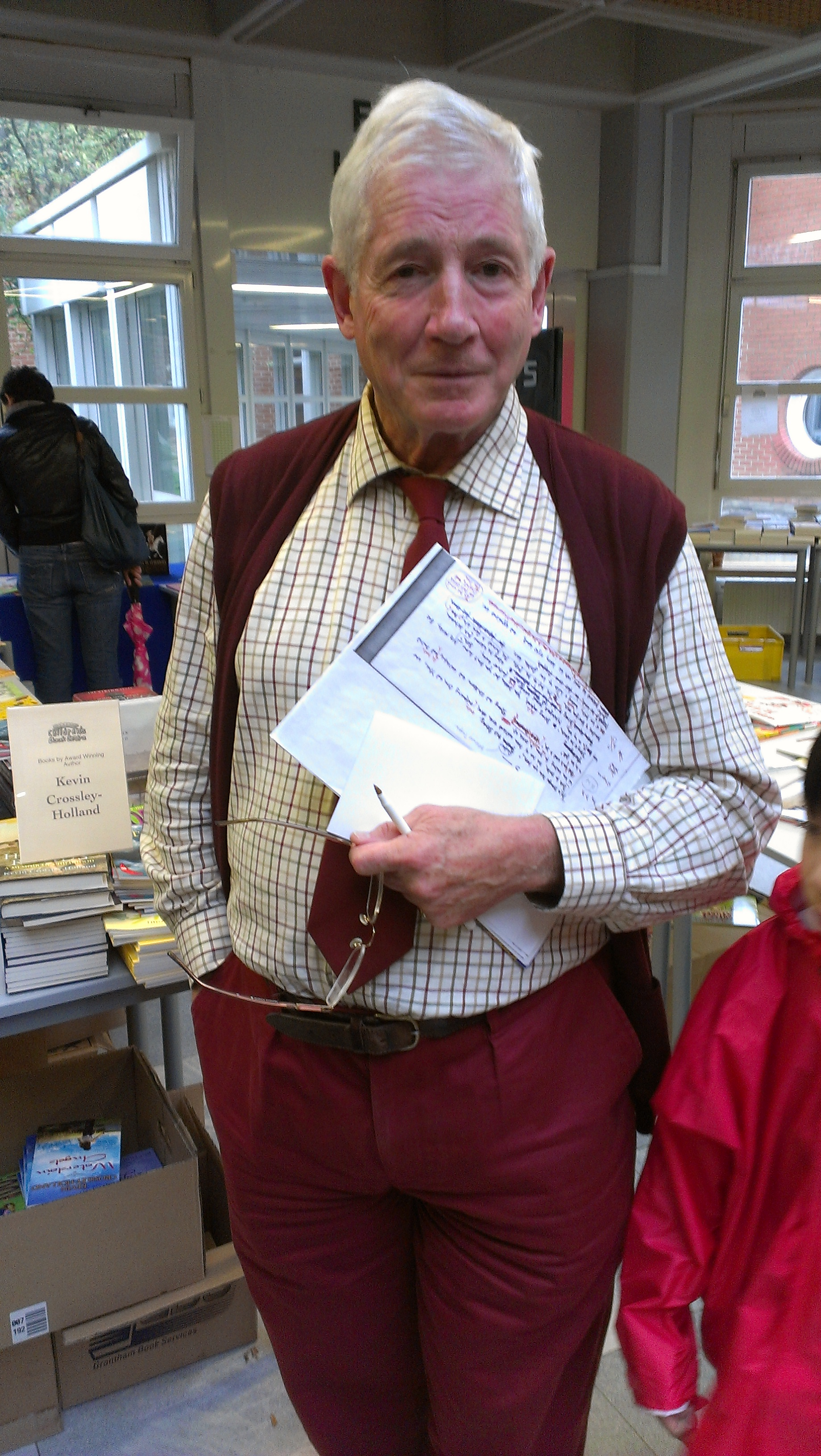 Kevin Crossley-Holland visiting Vienna International School.